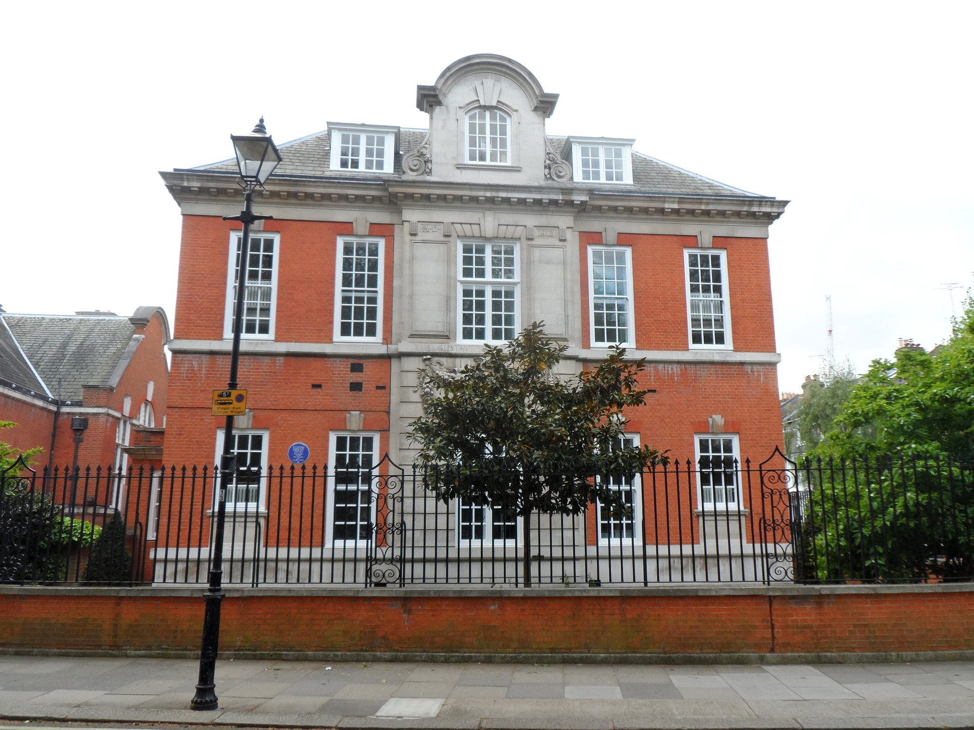 GUSTAV HOLST 1874-1934 Composer wrote The Planets and taught here